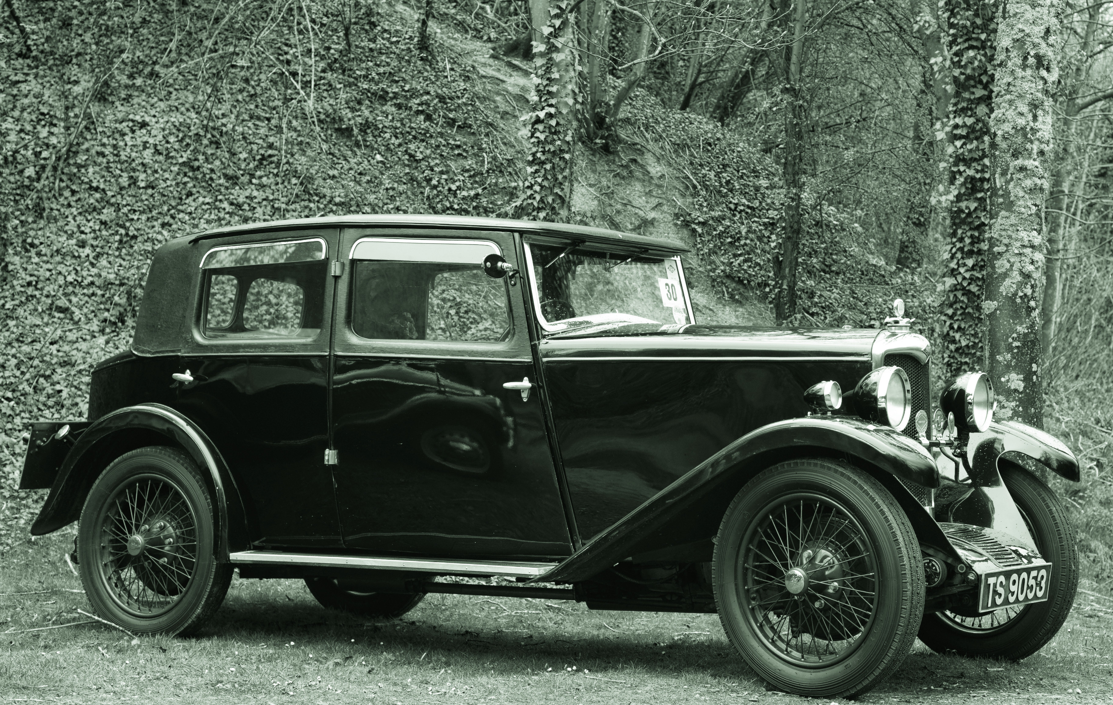 1931 Riley Nine BiarritzDVLA first registered 24 January 1931, 1056ccAmberley Vintage Car Show 2014